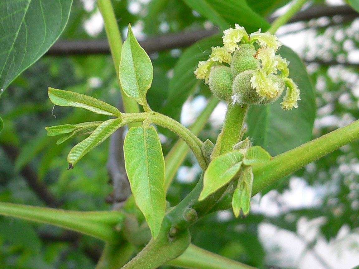 female flower of walnut (presumably juglans regia)